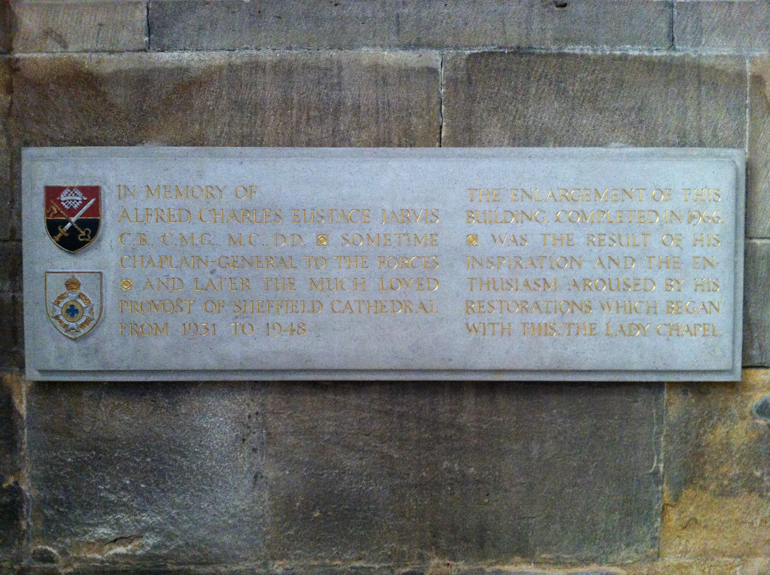 In memory of Alfred Charles Eustace Jarvis, CB, CMG, MC, DD, sometime chaplain general to the forces and later the much loved provost of Sheffield Cathedral from 1931 to 1948